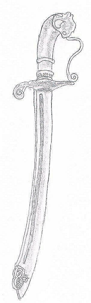 Parang-Nabur